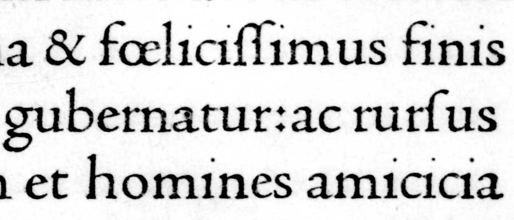 Printing of Nicolas Jenson